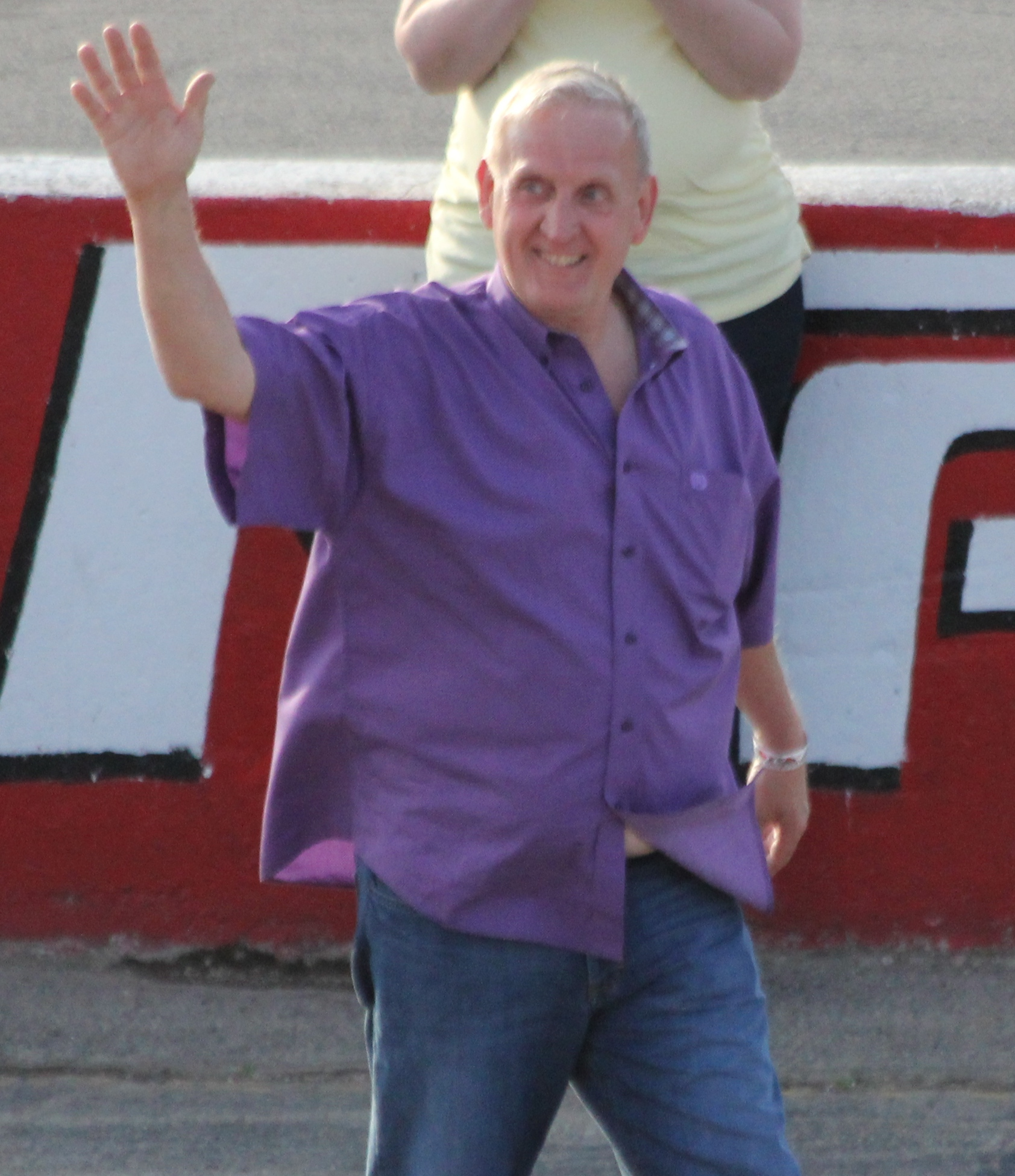 Retired ASA and NASCAR driver Scott Hansen waves as the crowd roared at the Dixieland 250 at Wisconsin International Raceway. He won several track championships and twice won the race while he was a track regular here before moving up to being a long-term ASA driver.